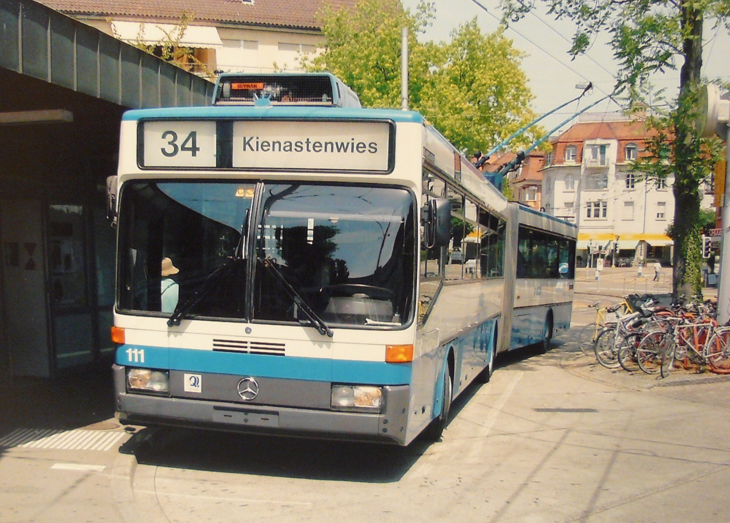 Mercedes-Benz trolleybus (#111) at Klusplatz in Zurich, Switzerland.